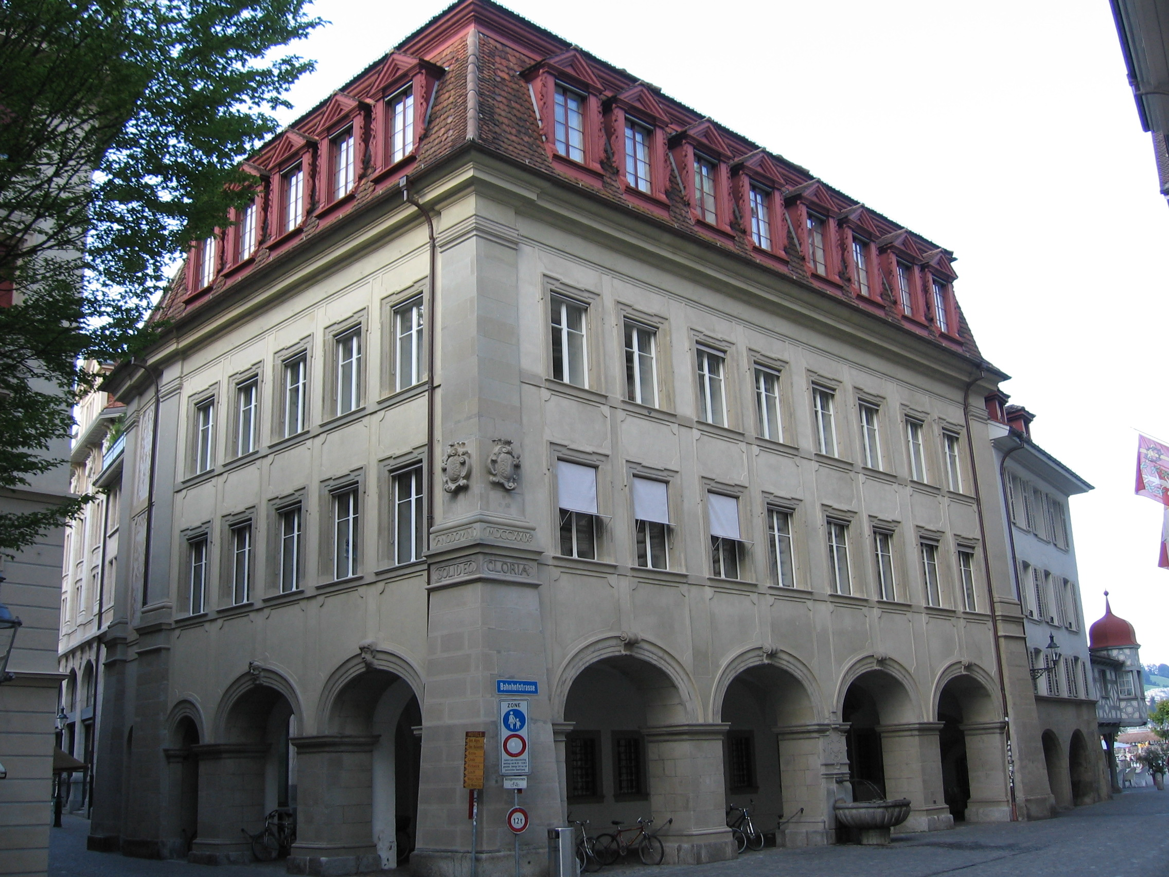 Batiment du XVIIIe siècle, qui faisait partie du collège jésuite de Lucerne (aujourd'hui: dépot des archives de l'Etat)